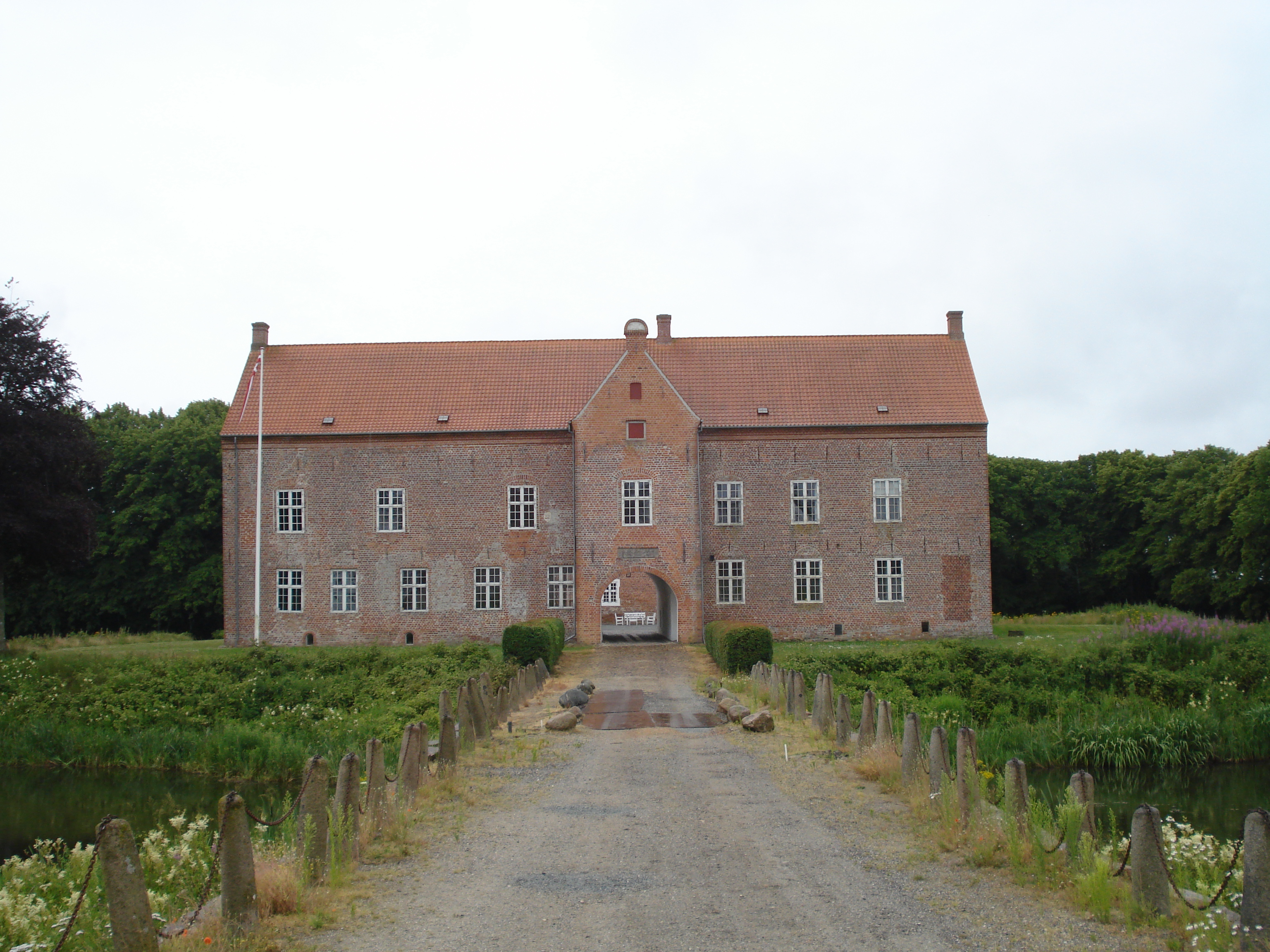 Sæbygaard Manorhouse, Jutland, Denmark